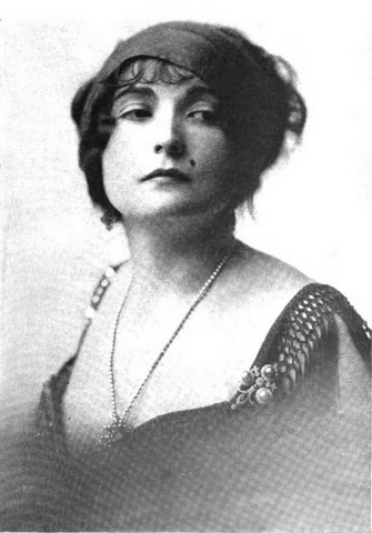 Vida Whitmore, from 1911 publication.